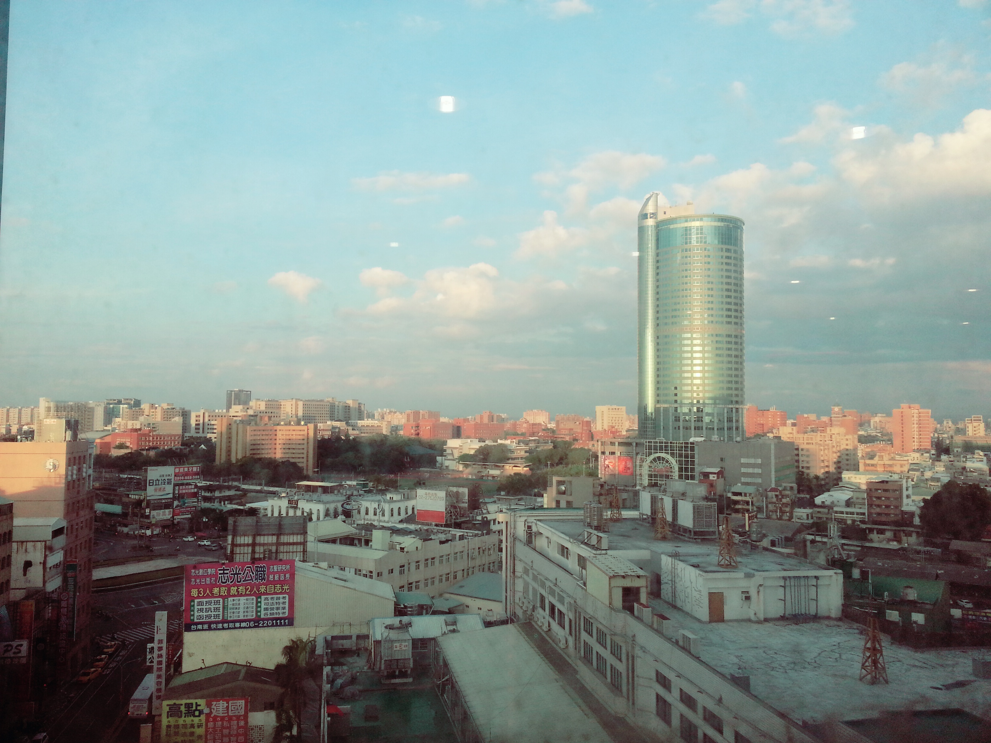 台南大都會區大樓群